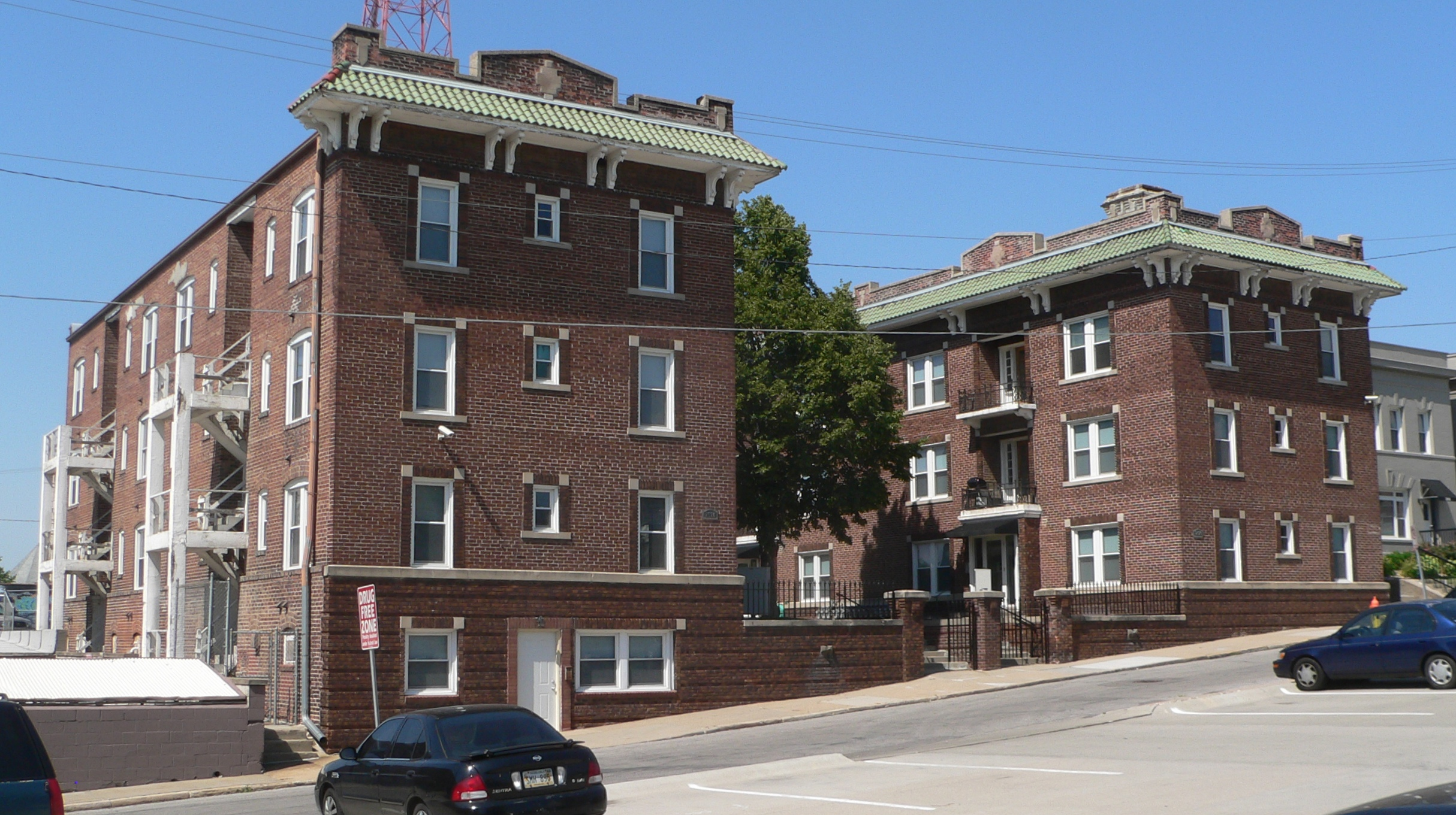 Undine Apartments, located at 2620 (right) and 2626 (left) Dewey in Omaha, Nebraska; seen from the southwest.